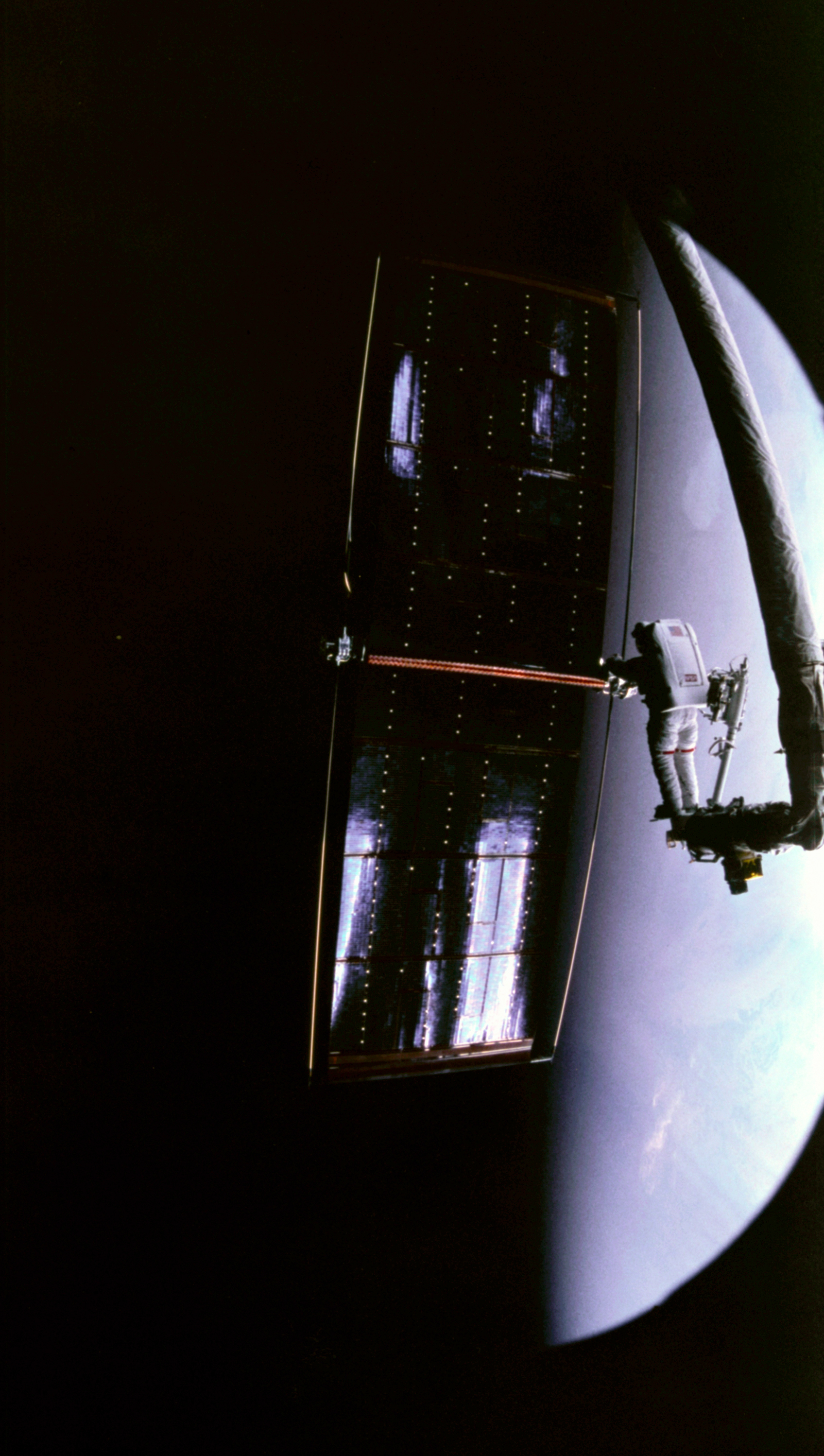 To run all their systems, satellites need a way to generate power for months, even years. Most Earth-orbiting spacecraft, like the Hubble Space Telescope, rely on solar cells to recharge their onboard batteries. But solar panels have their own set of problems. They must be lightweight and flexible to fit inside a relatively small launch vehicle. Consequently, they tend to be fragile, and several satellites have had to cope with damaged panels once in orbit. That is what happened to the Hubble Space Telescope. Fortunately, the telescope was designed for on-orbit repairs, and astronauts were able to remove the damaged panel and replace it with a new one. In this image, Astronaut Kathy Thornton releases the old panel into low-Earth orbit during the first Hubble Space Telescope Servicing Mission in 1993. Earth's gravitation pulled the jettisoned panel toward Earth's atmosphere, where it entered and ultimately burned up.